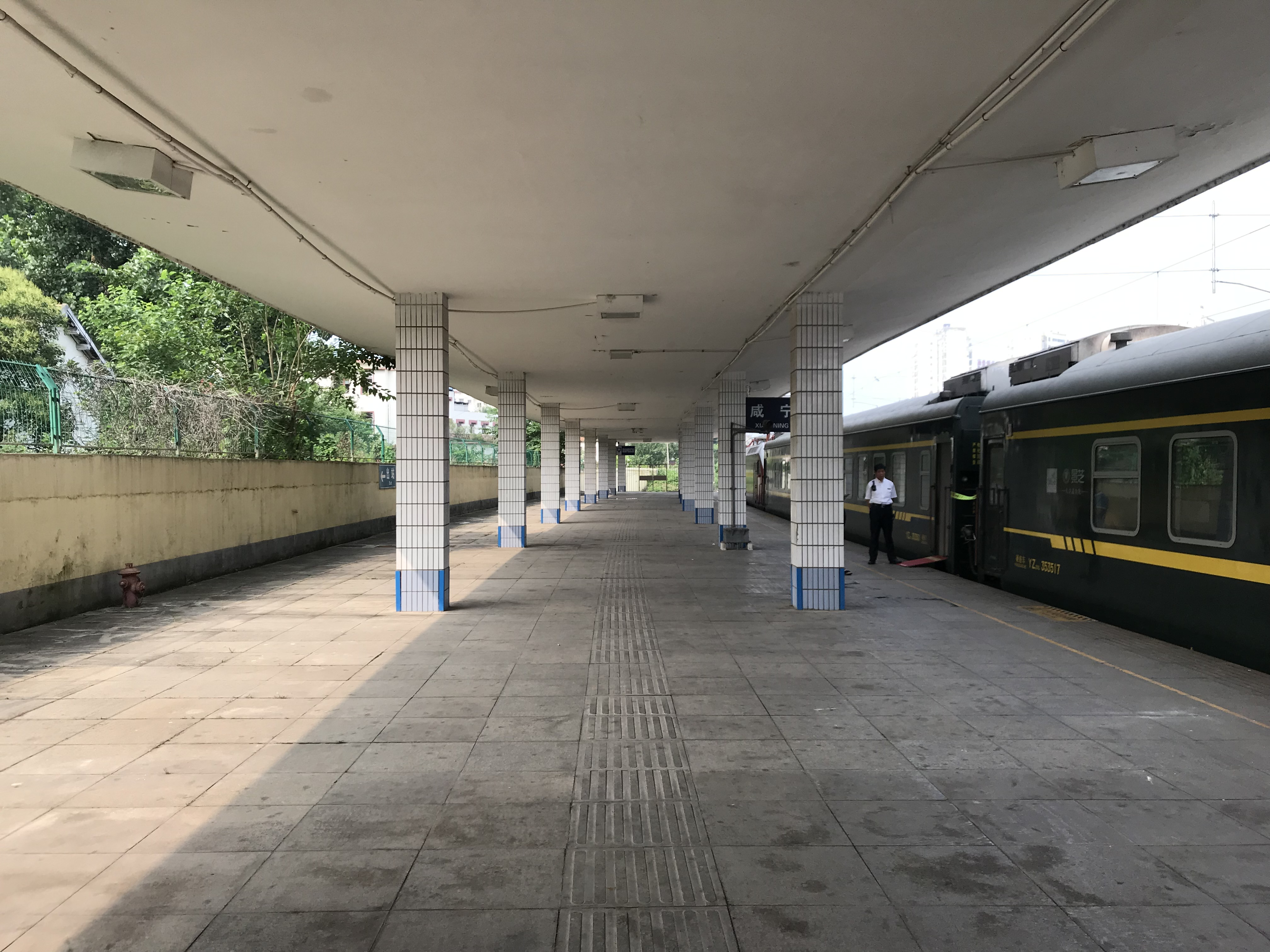 Old but clean station